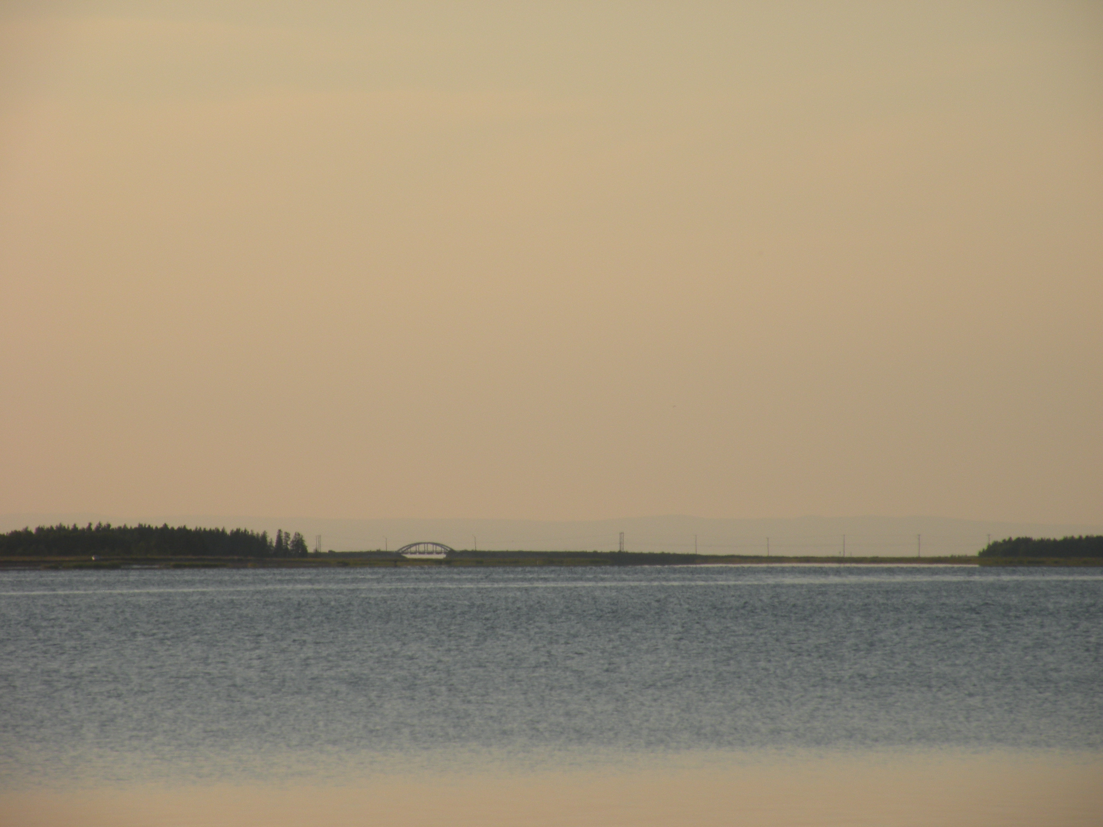 The Petite passe strait, between Bas-Caraquet and Pokesudie, New Brunswick.